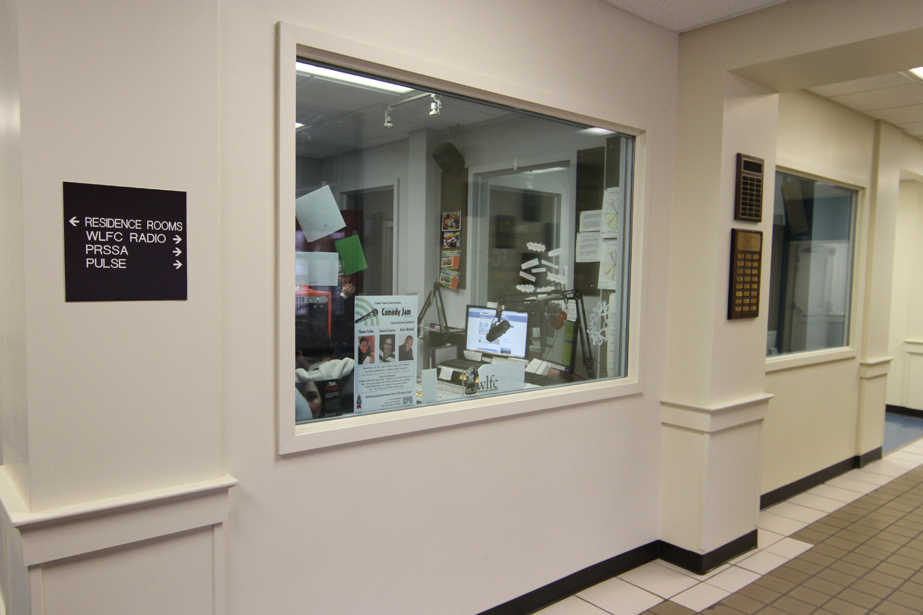 Image of WLFC Studio.